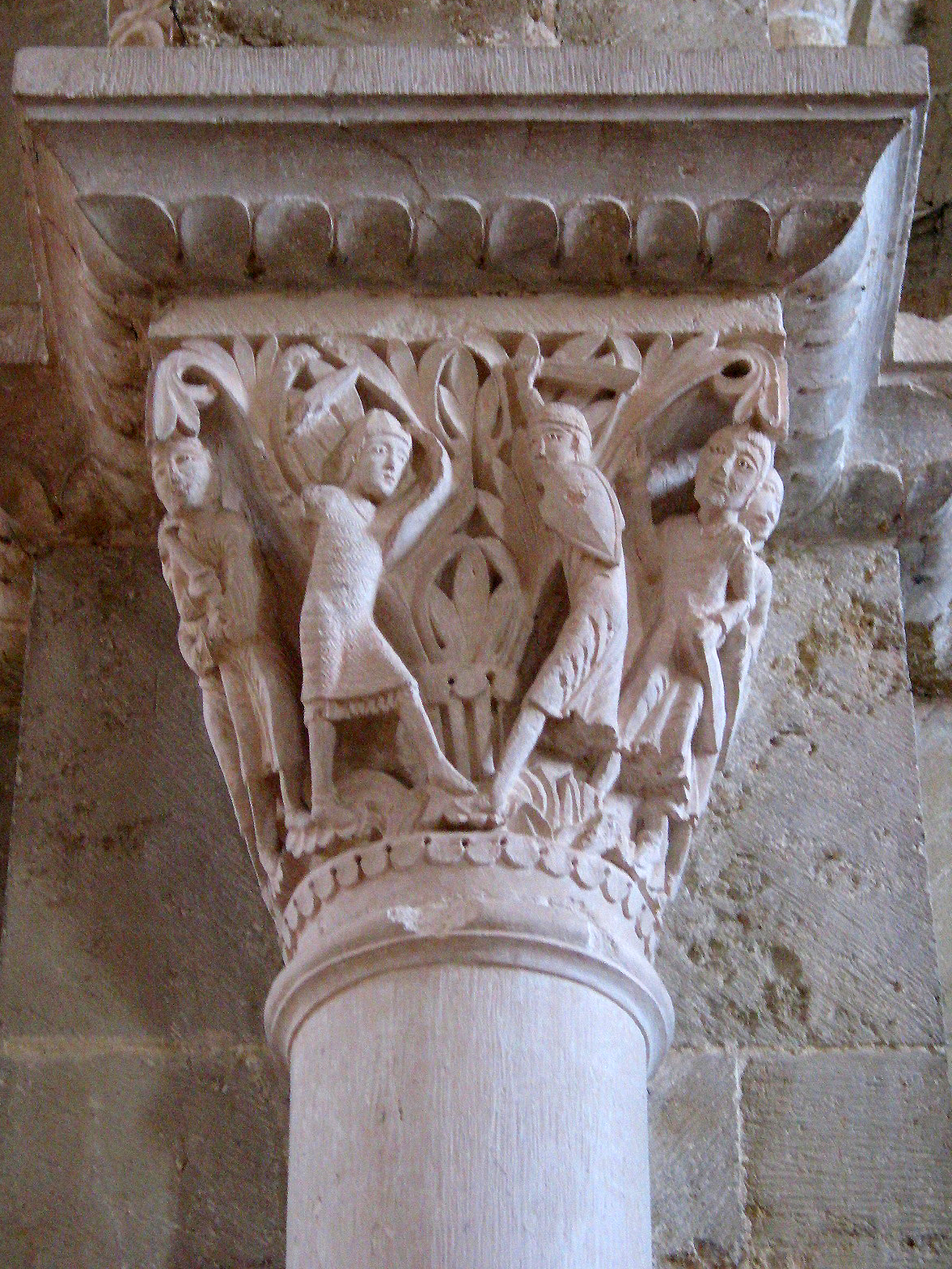 Vézelay (Yonne - France), Basilica of Saint Magdalene - Capital of the nave (2nd half of XIIth century), 2nd pillar south side:The duel .